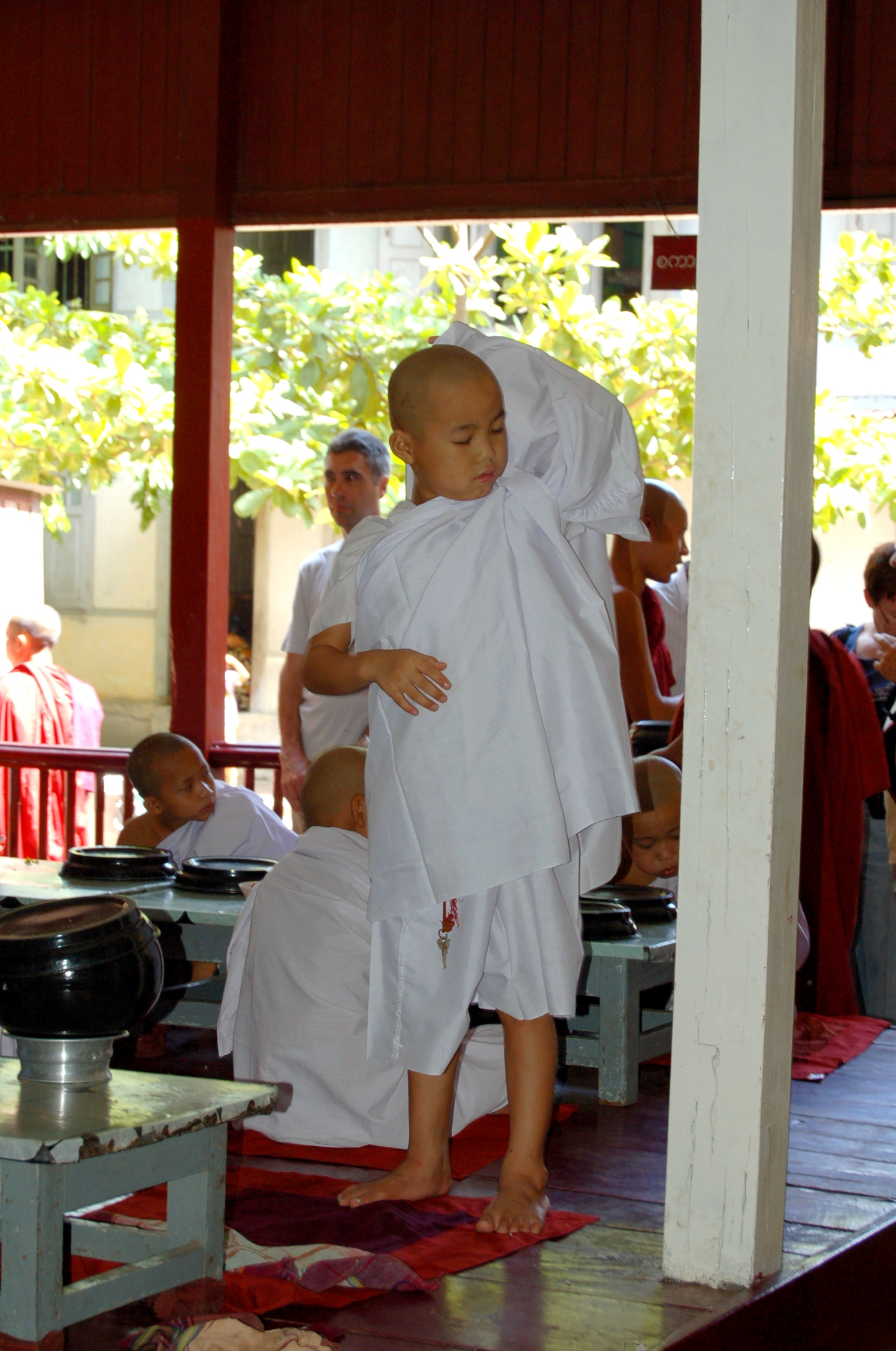 Burmese novitiate-to-be wearing white robes (signifying purity), prior to ordination as a samanera (novice monk)